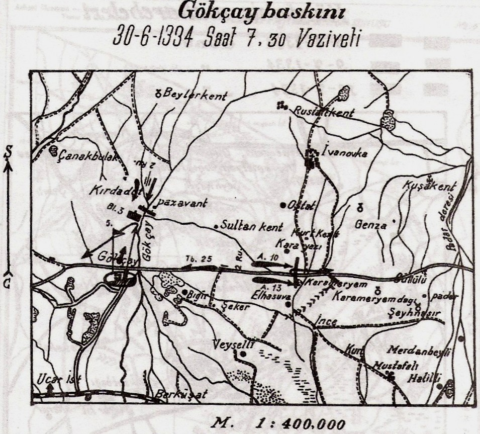 Battle plan with city, town and village names mentioned. It also includes major roads.